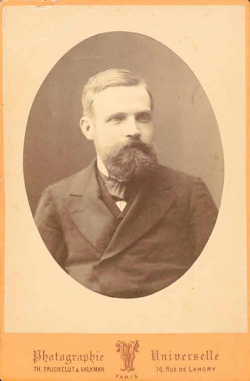 Charles Lardy (1847–1923), Swiss diplomat